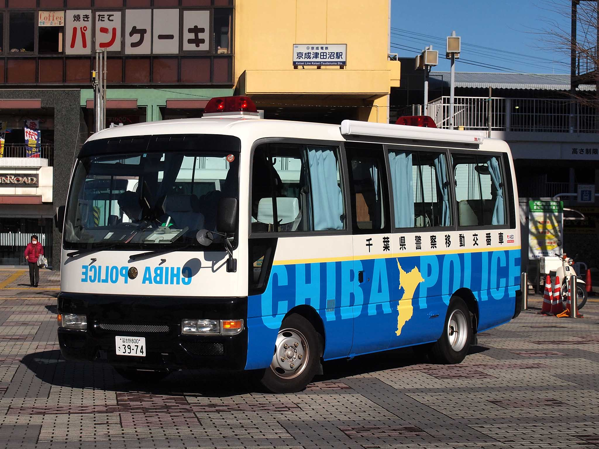 Example of "Ido Koban", Mobile police box of Chiba Prefectural Police. Model: Isuzu Journey SDVW41 License plate: CBN800 SA3974 Place: Keisei Tsudanuma Station, Narashino, Chiba Japan